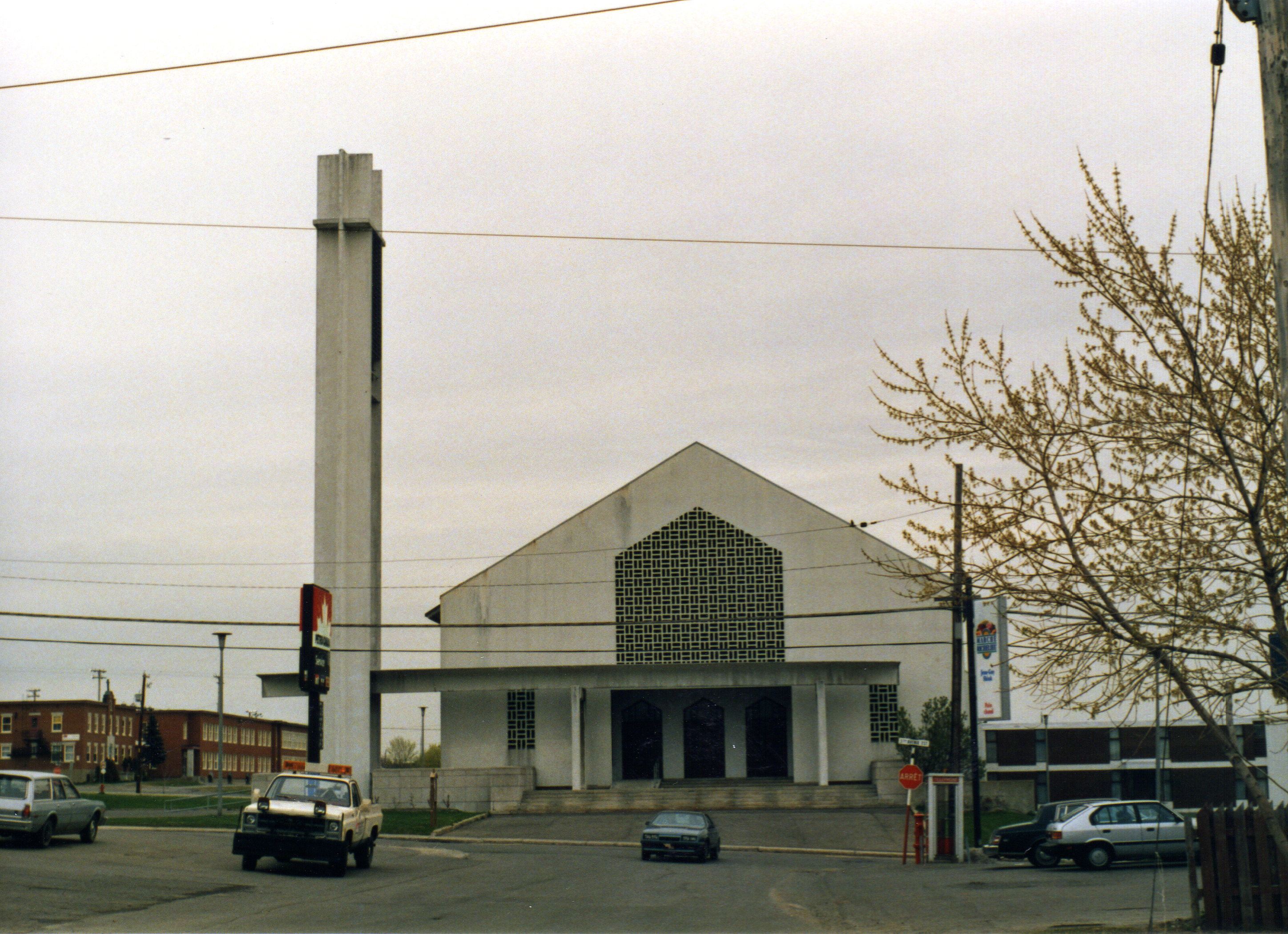 Saint-Jérôme-de-l'Auvergne church in charlesbourg, photographed in 1986. It was completed in 1967.